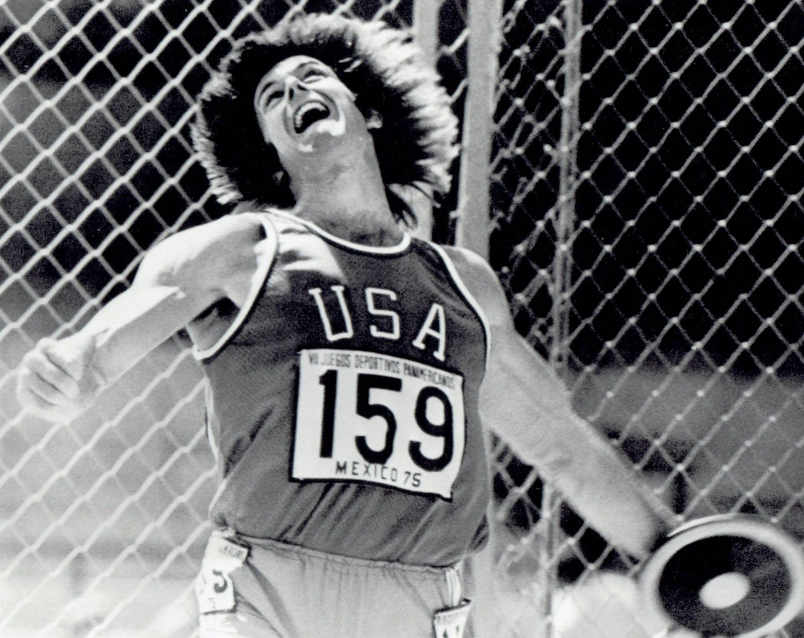 1975 AP Wire Photo throwing discus during decathlon Pan Am Games Bruce Jenner